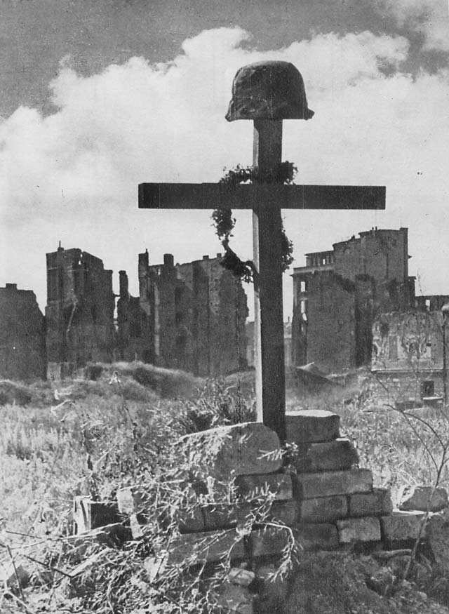 Grave of insurgents from battalion "Chrobry I" killed on August 31th, 1944 in wing of Simons' department store at Wyjazd street